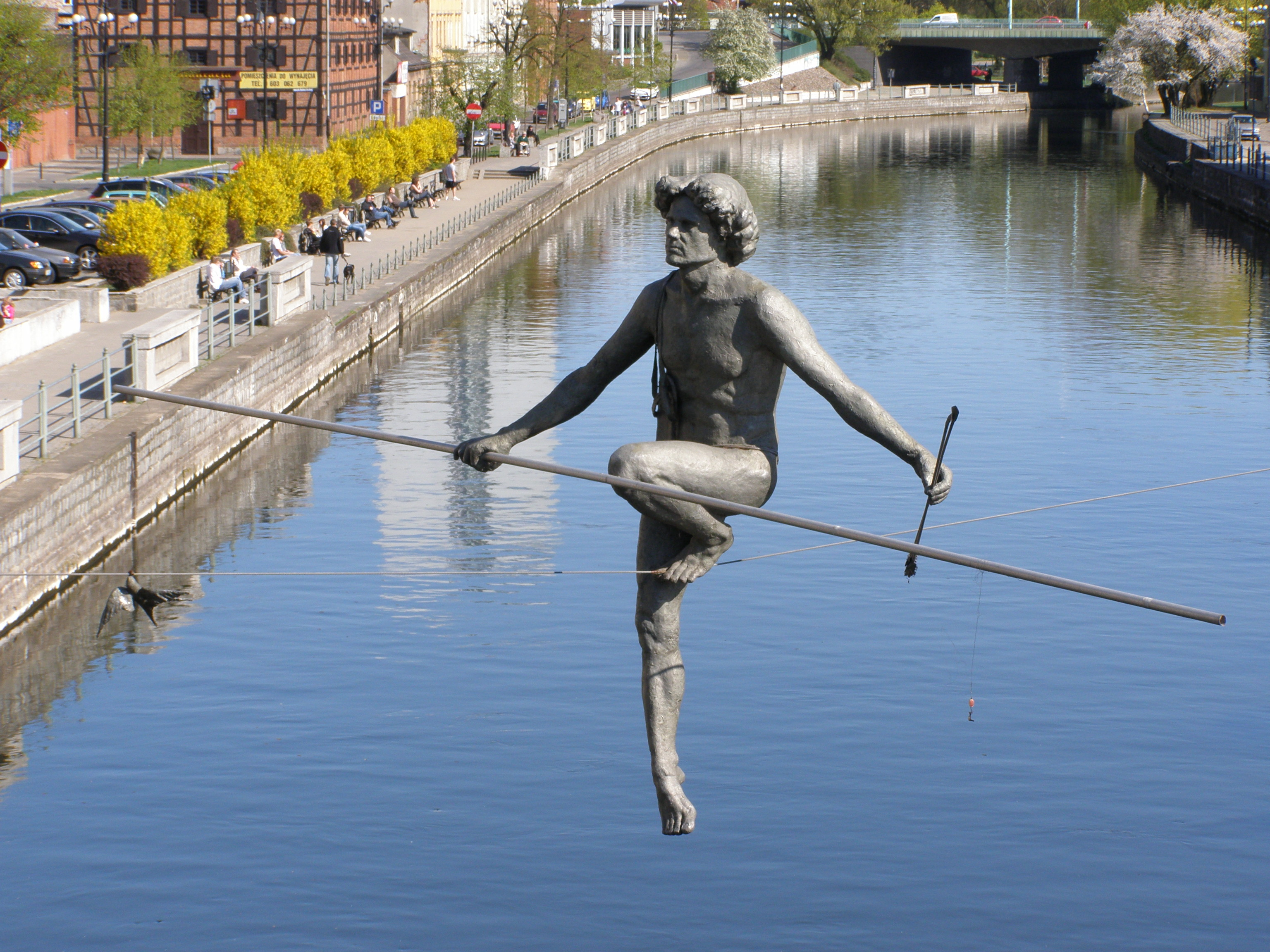 Przechodzący przez rzekę (Passes through the river) - monument in Bydgoszcz (author:Jerzy Kedziora)